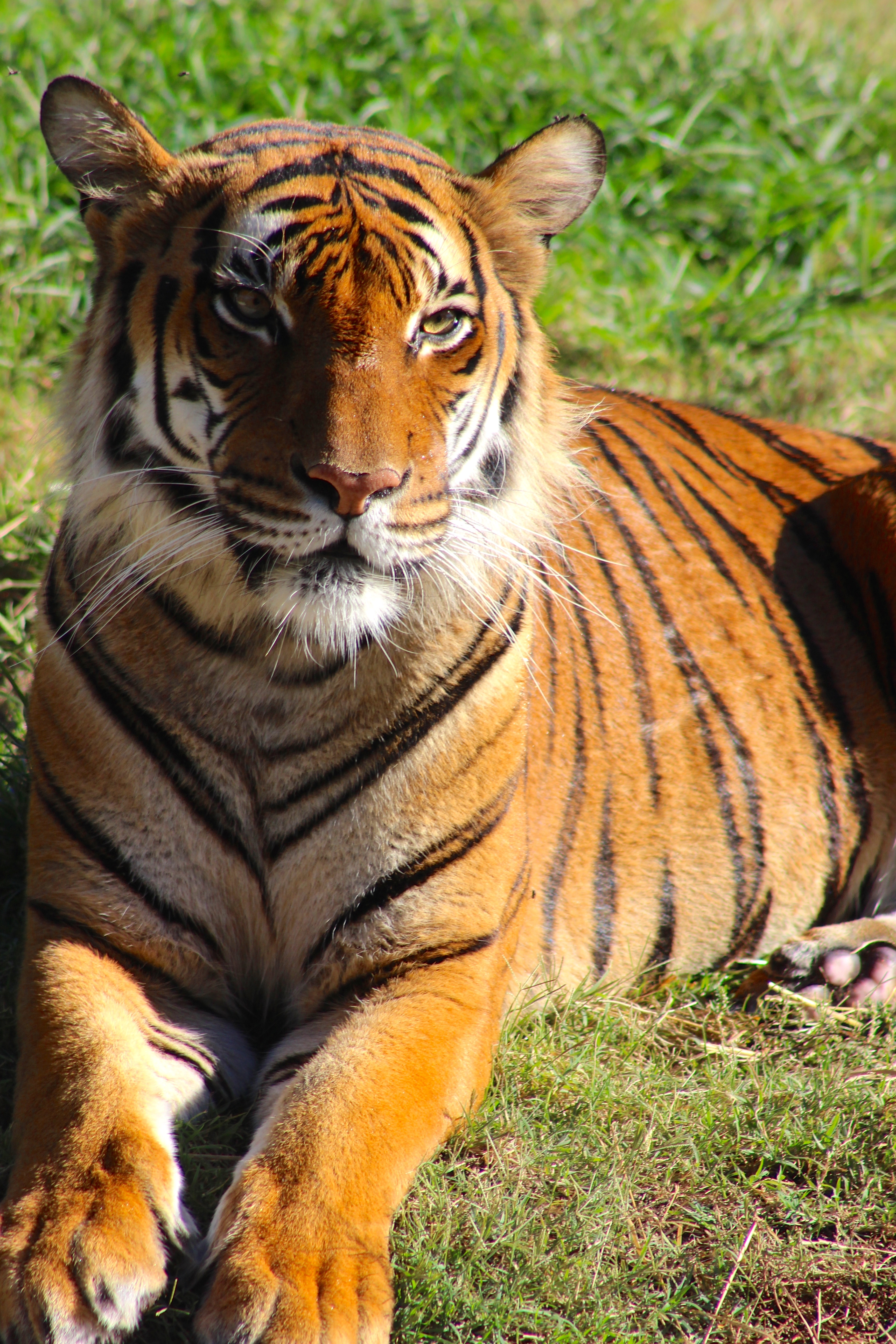 Gahara the Malayan Tiger